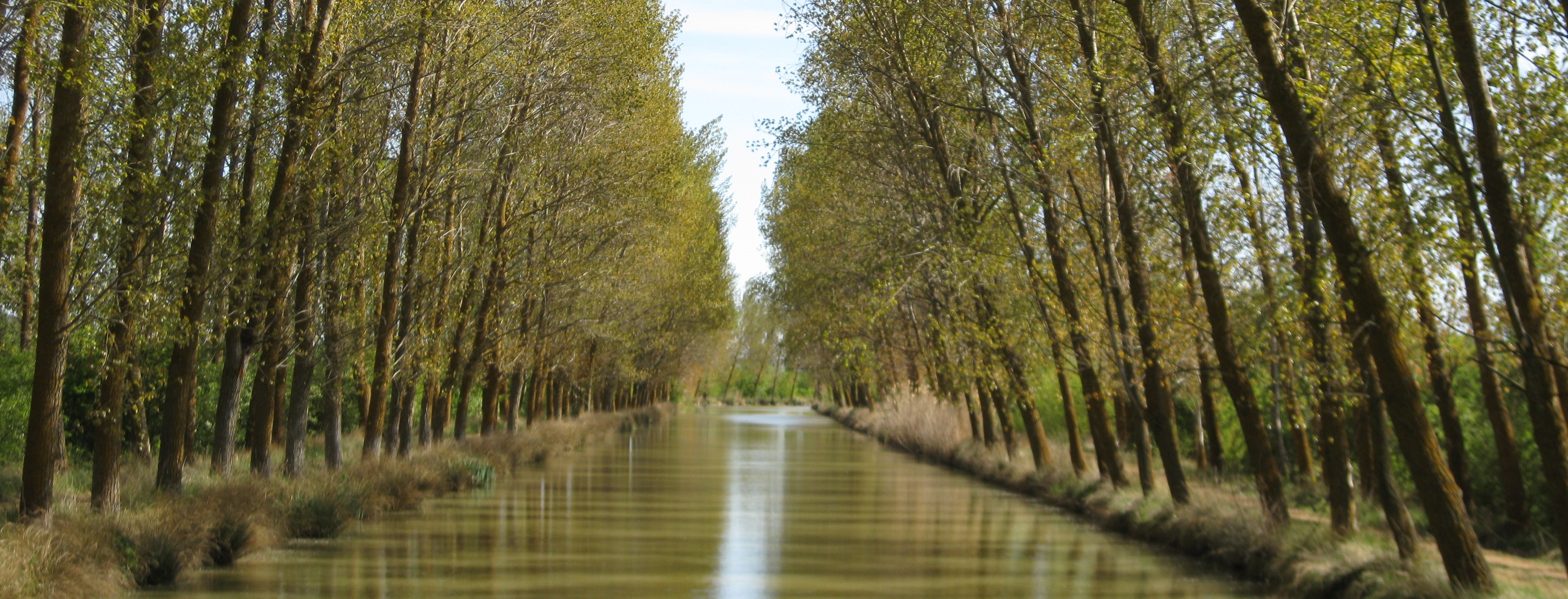 Canal de Castilla near Medina de Rioseco (Valladolid, Spain).